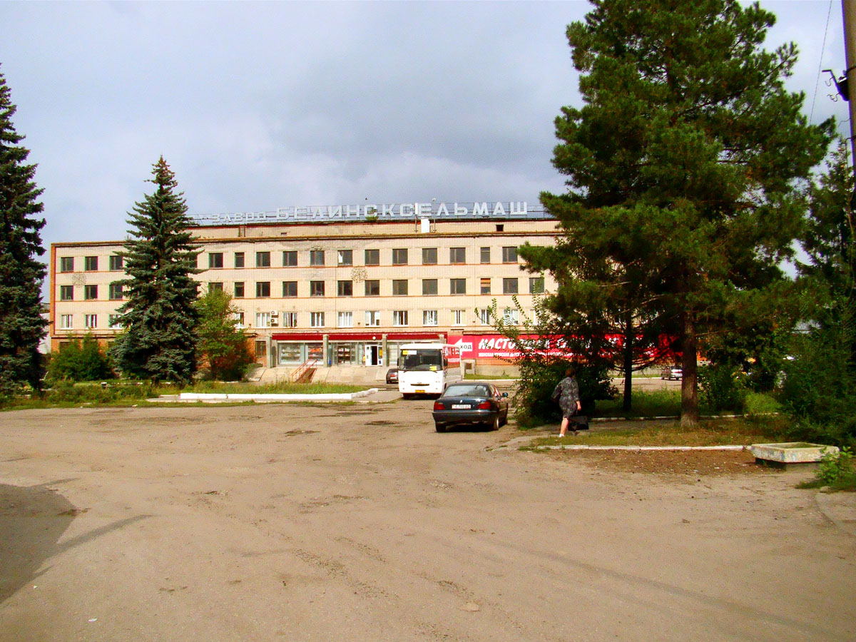 Machine works "Belinskselmash". Kamenka town. Russia, Penza Region.